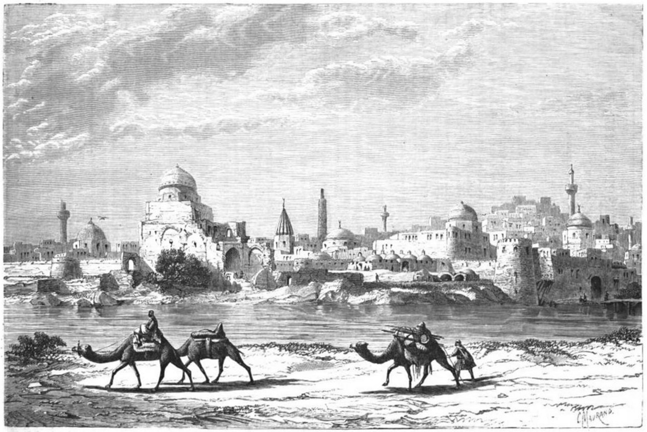 General view of Mosul, on the bank of the Tigris.